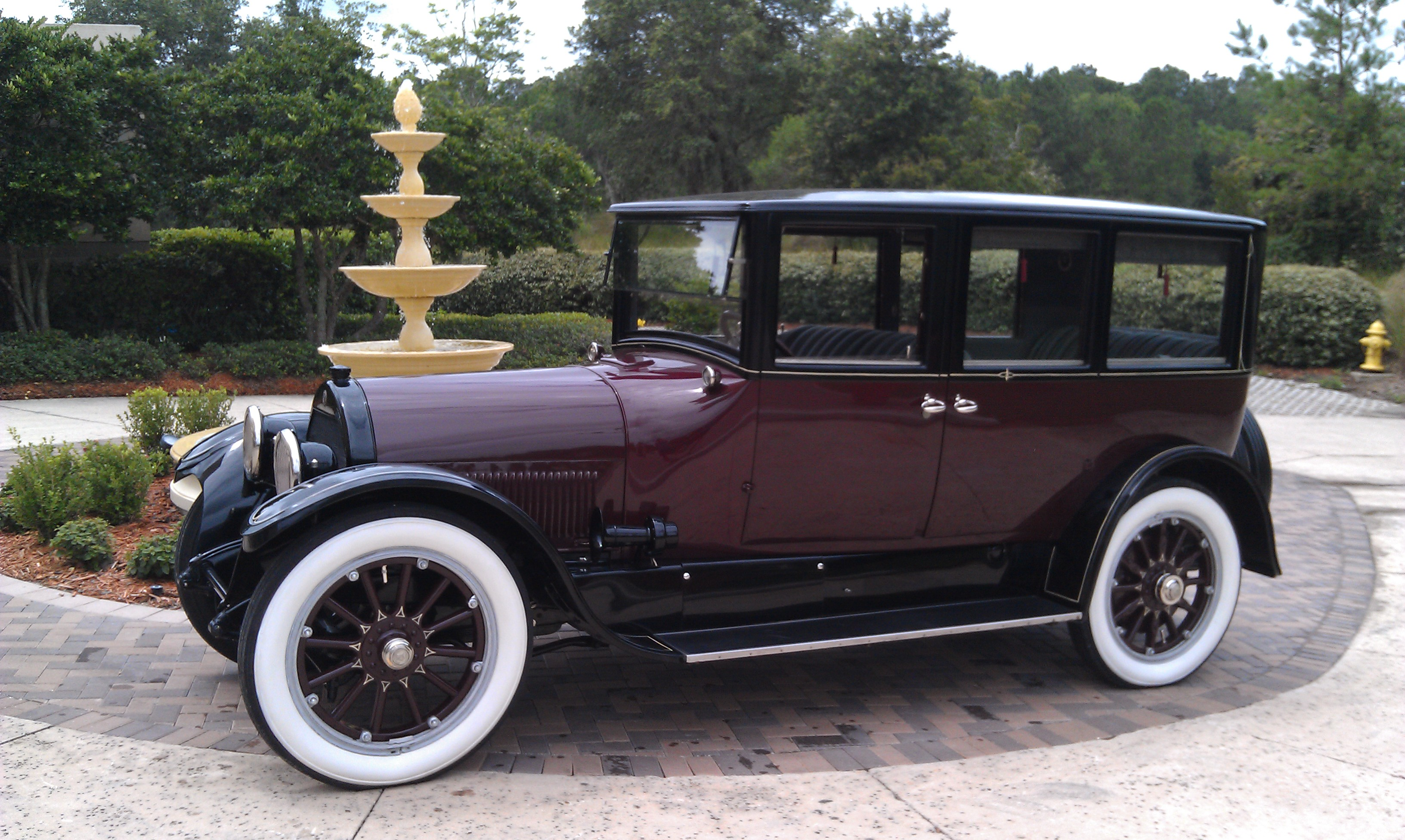 Image of a 1921 Cadillac Suburban. It was restored as original less than 10 years ago, and is an accurate representation of the car as it was originally built in Detroit Michigan. It was one of the first cars built in the new Cadillac Fleetwood Assembly Plant located at 2680 Clark Street, Detroit, Michigan, which produced Cadillac's from 1921 - 1987. This car is a 7 seater "Suburban" with a V-8 engine, tilt steering, and nickel-plated headlights and sidelights.